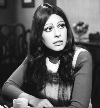 Mirta Massa- actriz y modelo argentina